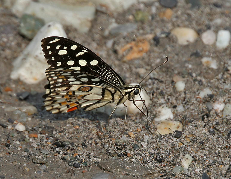 Lime Butterfly Papilio demoleus at Jayanti in Buxa Tiger Reserve in Jalpaiguri district of West Bengal, India.